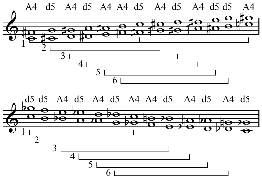 Full ascending and descending chromatic scale on C, with tritones. Interval and matching tritones marked.